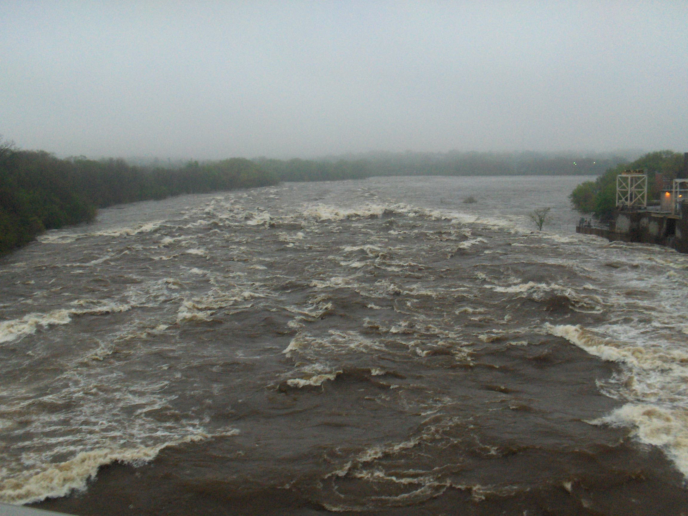 Taken From University AVE Bridge Looking Down River.